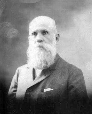 Pedro Cafferata consul y alcalde de Huaraz